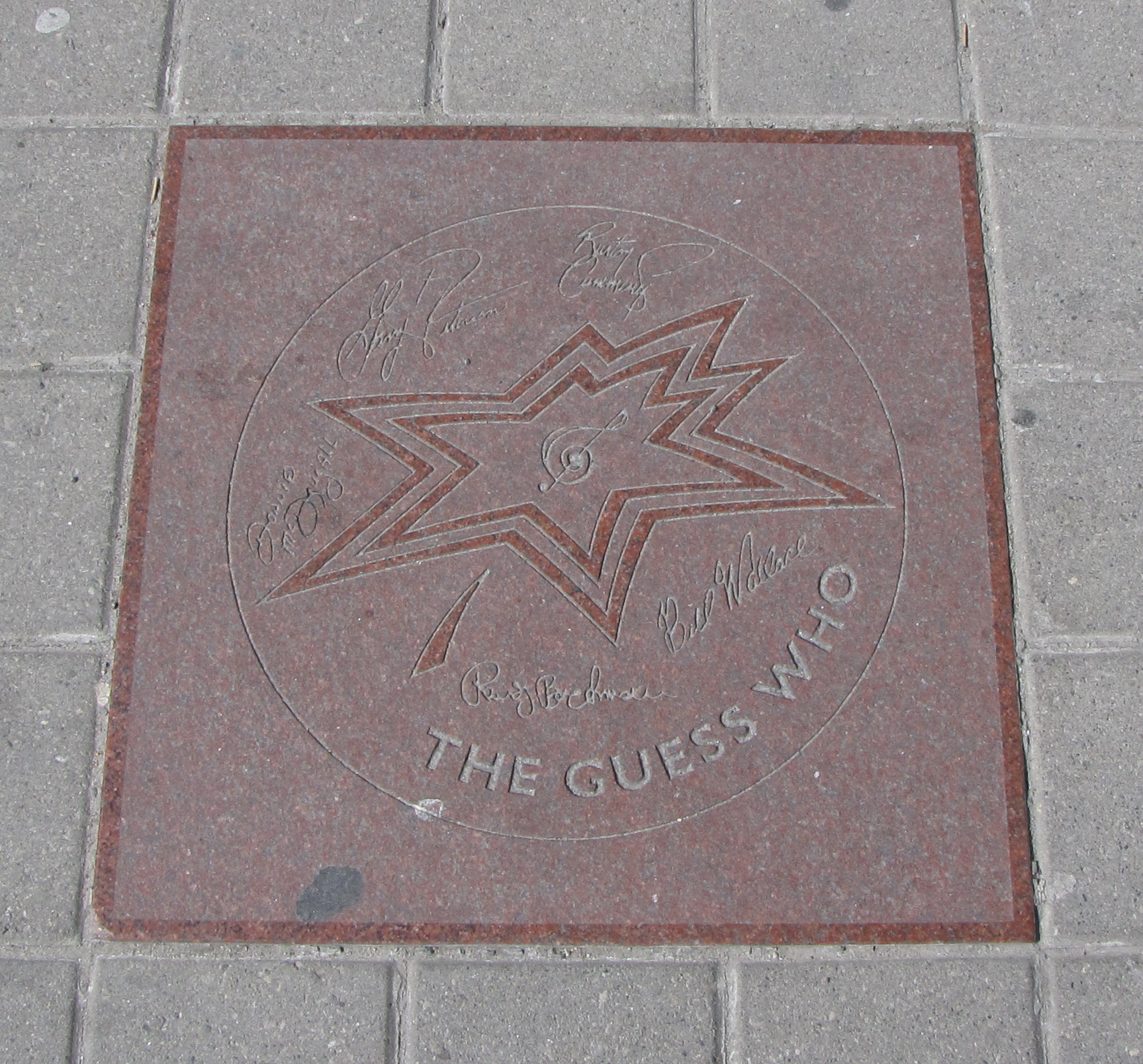 Star on Canada's Walk of Fame for the rock band The Guess Who. Signatures, from top left clockwise: Garry Peterson, Burton Cummings, Bill Wallace, Randy Bachman and Donnie McDougall